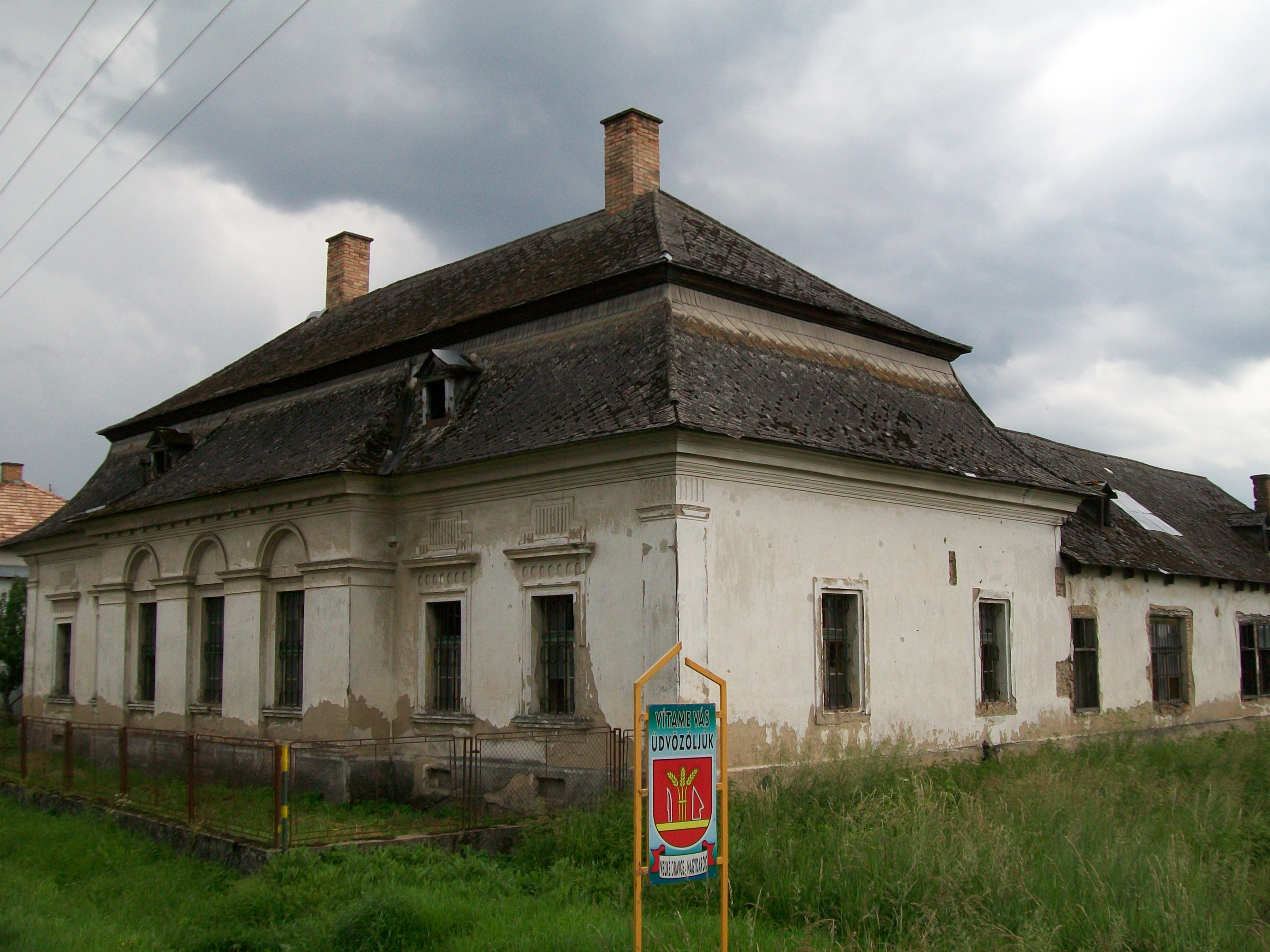 The Manor house in Veľké Dravce, was built in 1821, its first proprietor was Josef Horkovics (monument)